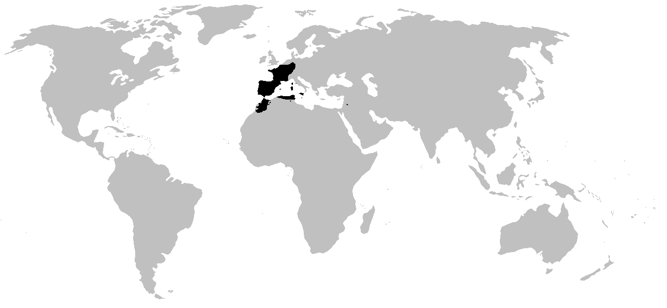 Distribution of the Discoglossidae family.